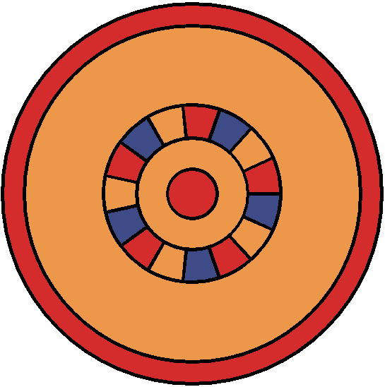 Shield pattern of Tertia Herculea in the early 5th century. Quelle: Notitia Dignitatum Occ V.